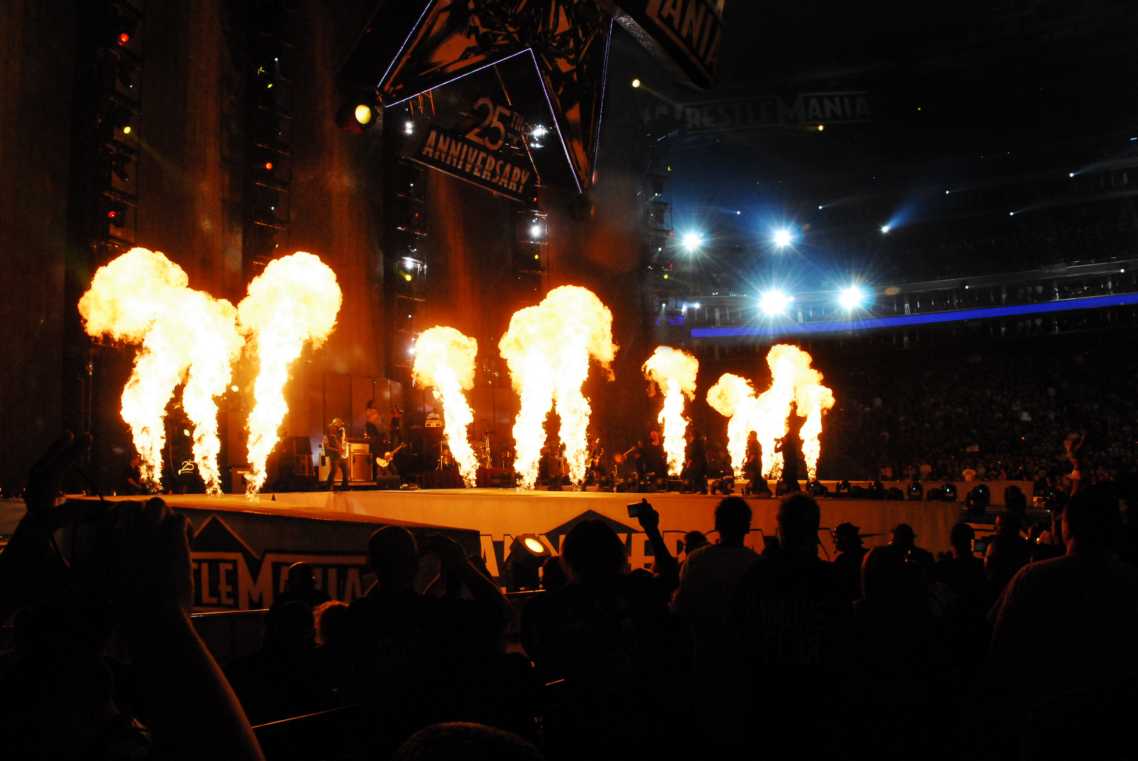 Kid Rock performing at WrestleMania 25 at Reliant Stadium in Houston, Texas on April 5, 2009.